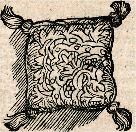 sweet-bag 16th century examples